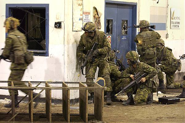 The Calgary Highlanders, a Land Force Reserve Infantry Regiment, headquartered at Mewata Armouries in Calgary, Alberta, Canada, engaged in Exercise Black Bear in 2004.